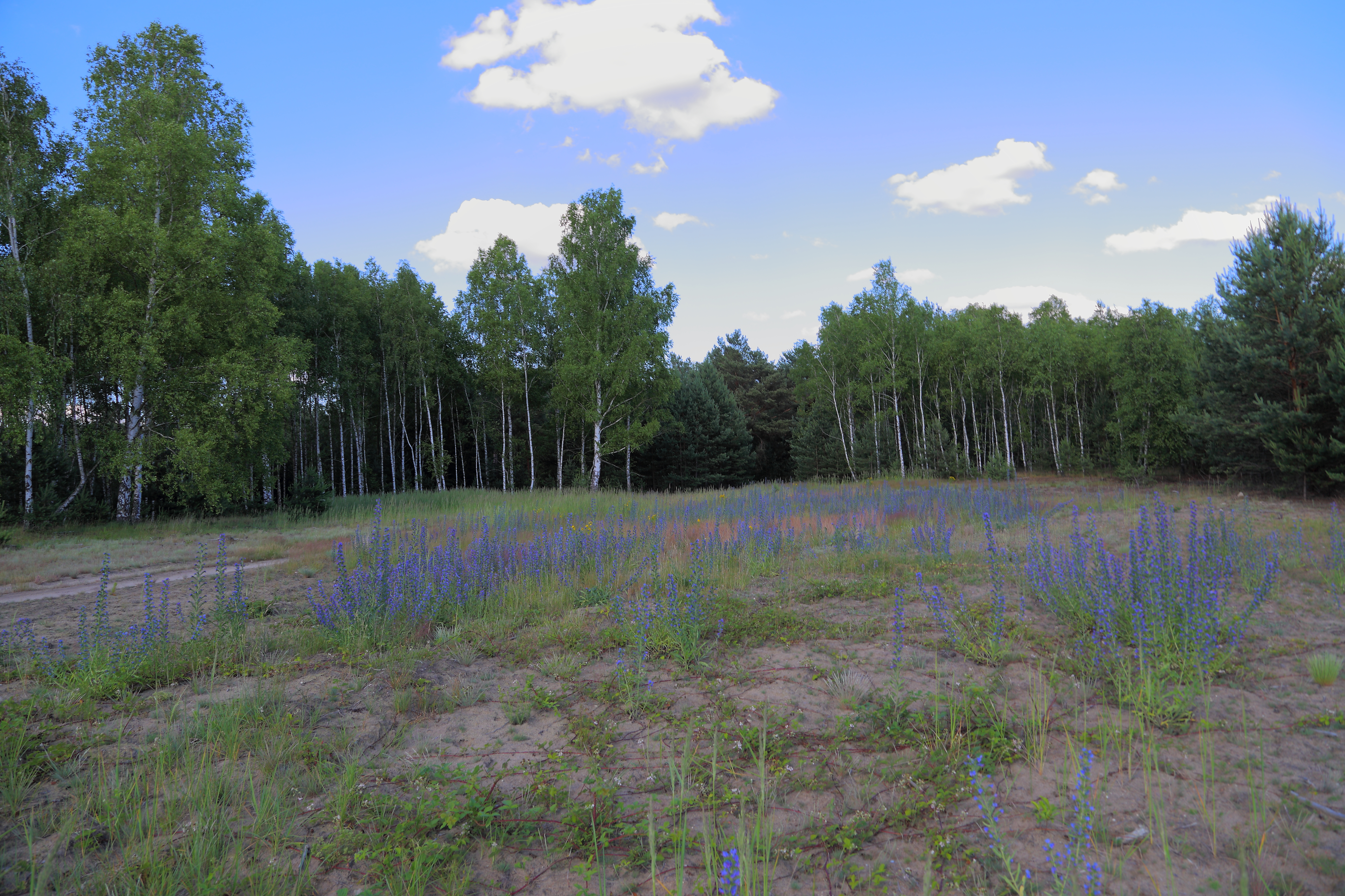 Viper's Bugloss (Echium vulgare) in the Lieberose Heath (Lieberoser Heide) in Brandenburg, Germany.